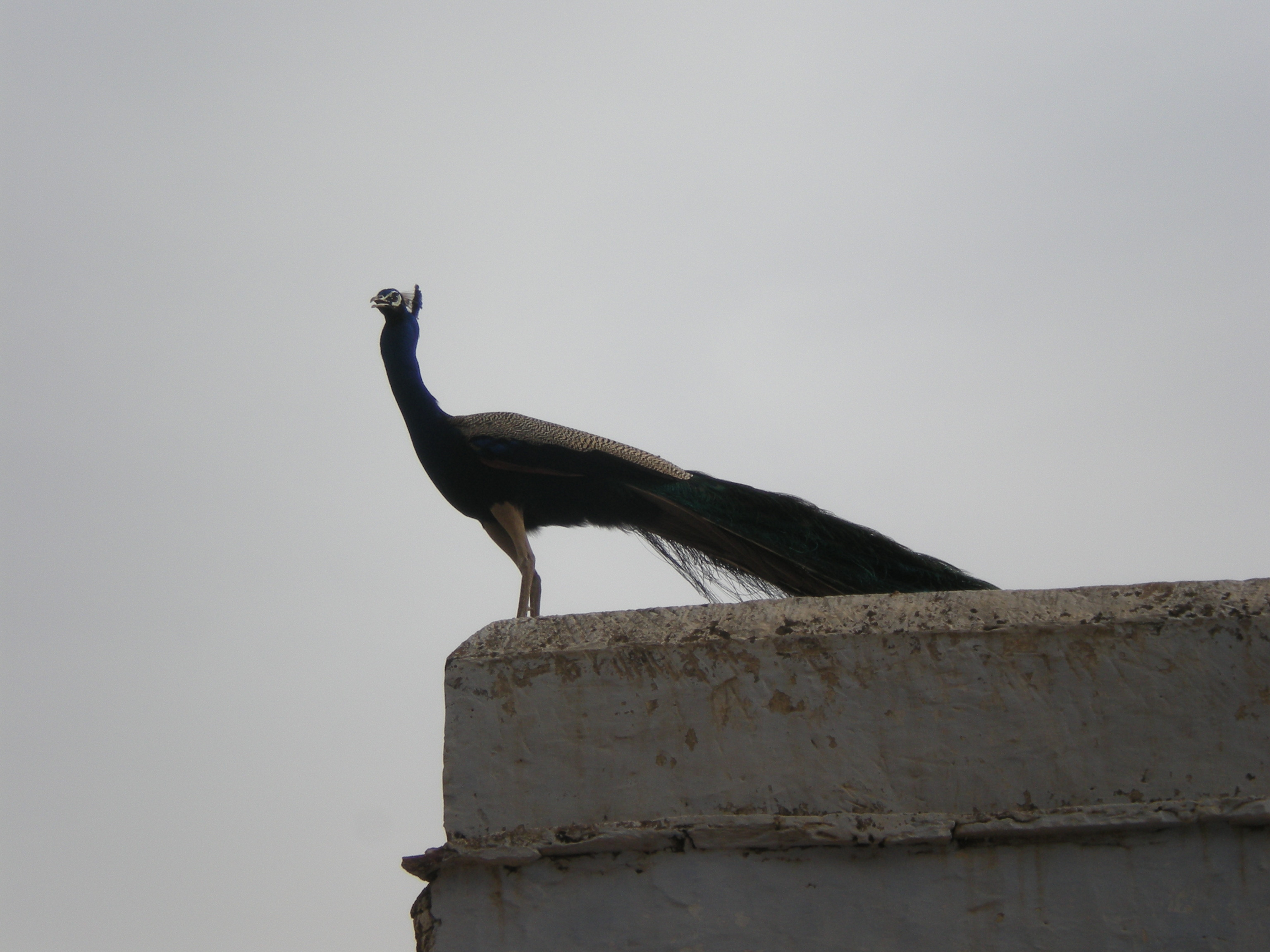 Peacock sitting on wall of Jiliya Fort